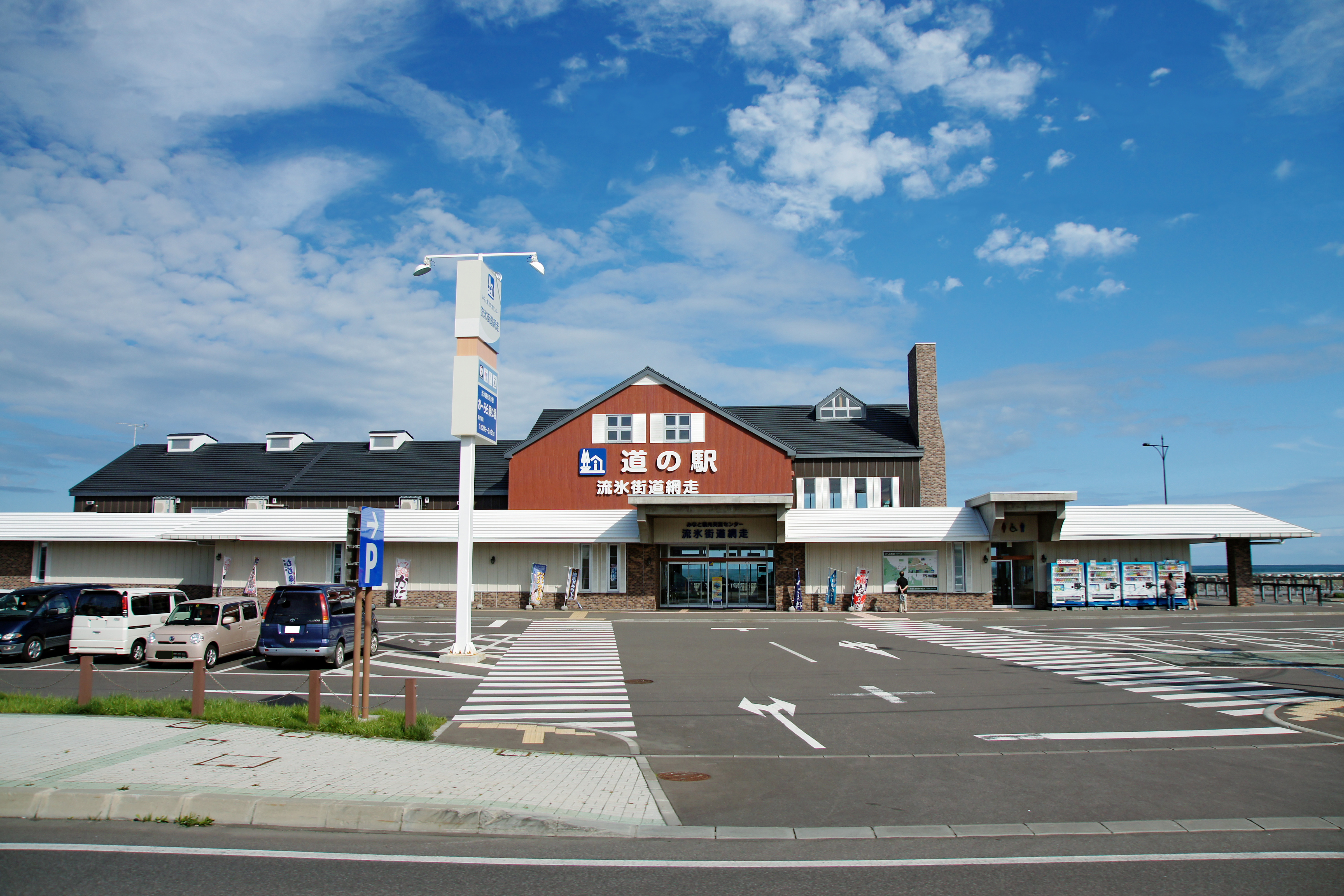 Michinoeki Ryuhyo-kaido Abashiri in Abashiri, Hokkaido prefecture, Japan